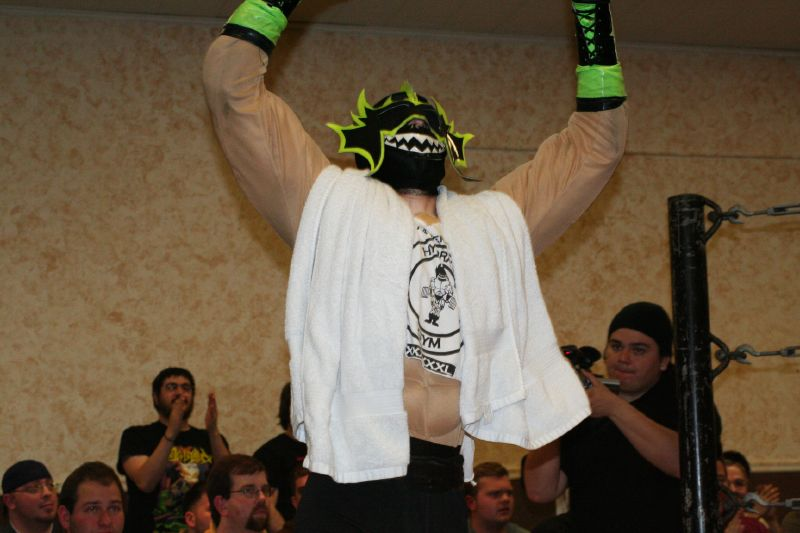 Professional wrestler Hydra at a Chikara show on May 24, 2008.